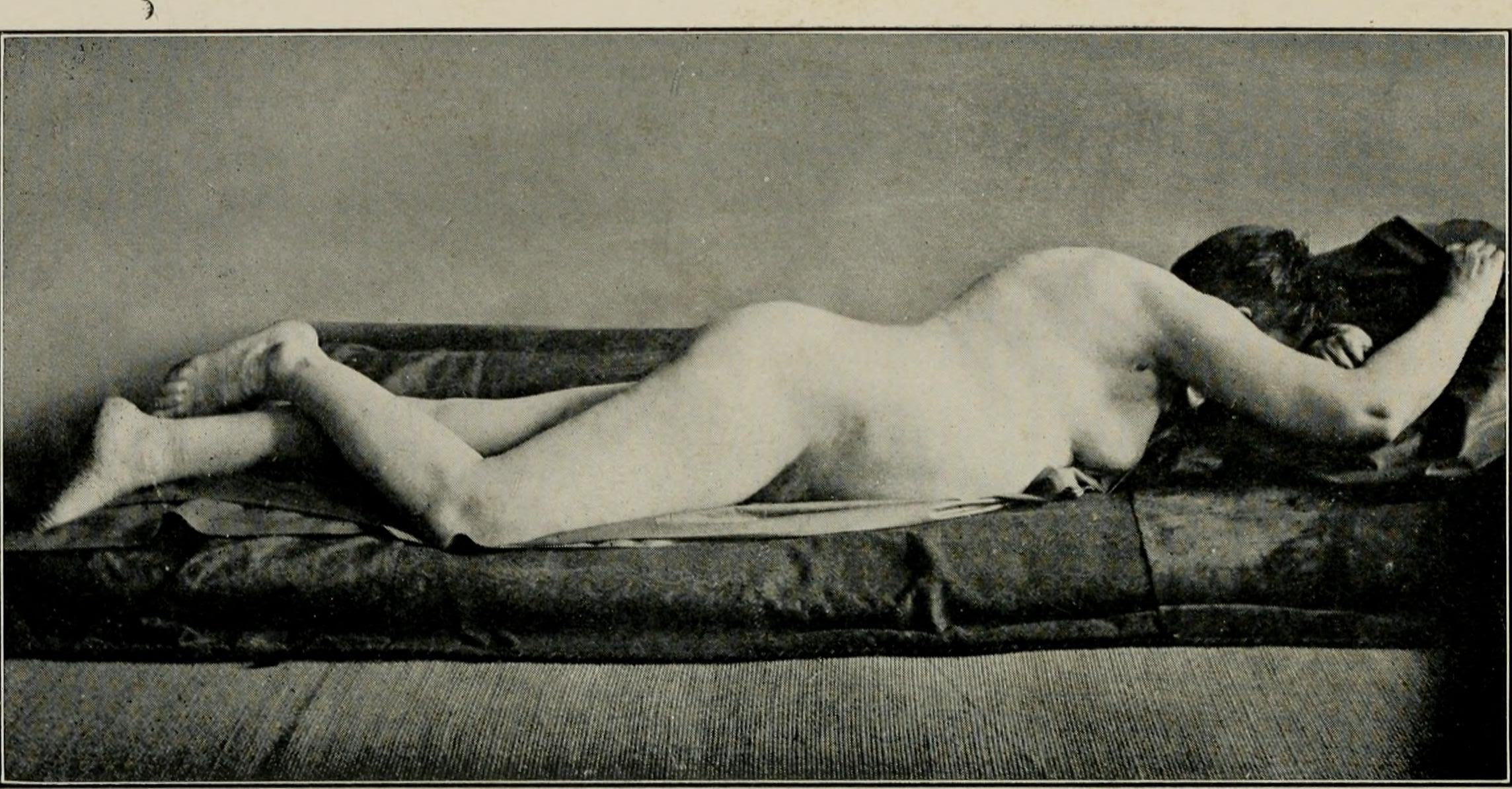 Frontispiece from the 1922 book The Female-Impersonators by Earl Lind (or Ralph Werther or Jennie June). Photograph captioned: ""The Author—a Modern Living Replica of the Ancient Greek Statue, "Hermaphroditos" (Photo by Dr. A. W. Herzog)"